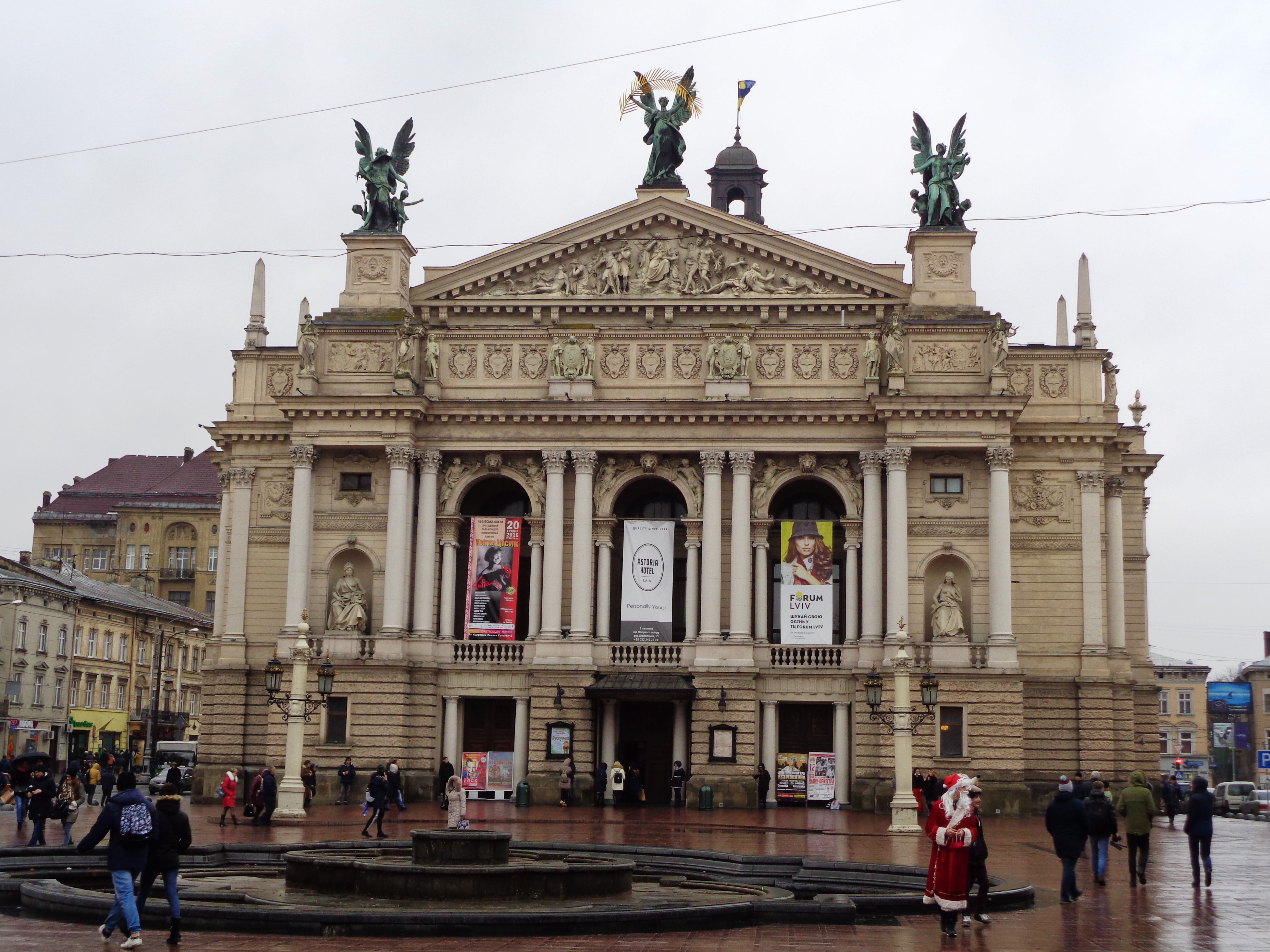 Daytime photo of Lviv opera house December 2016